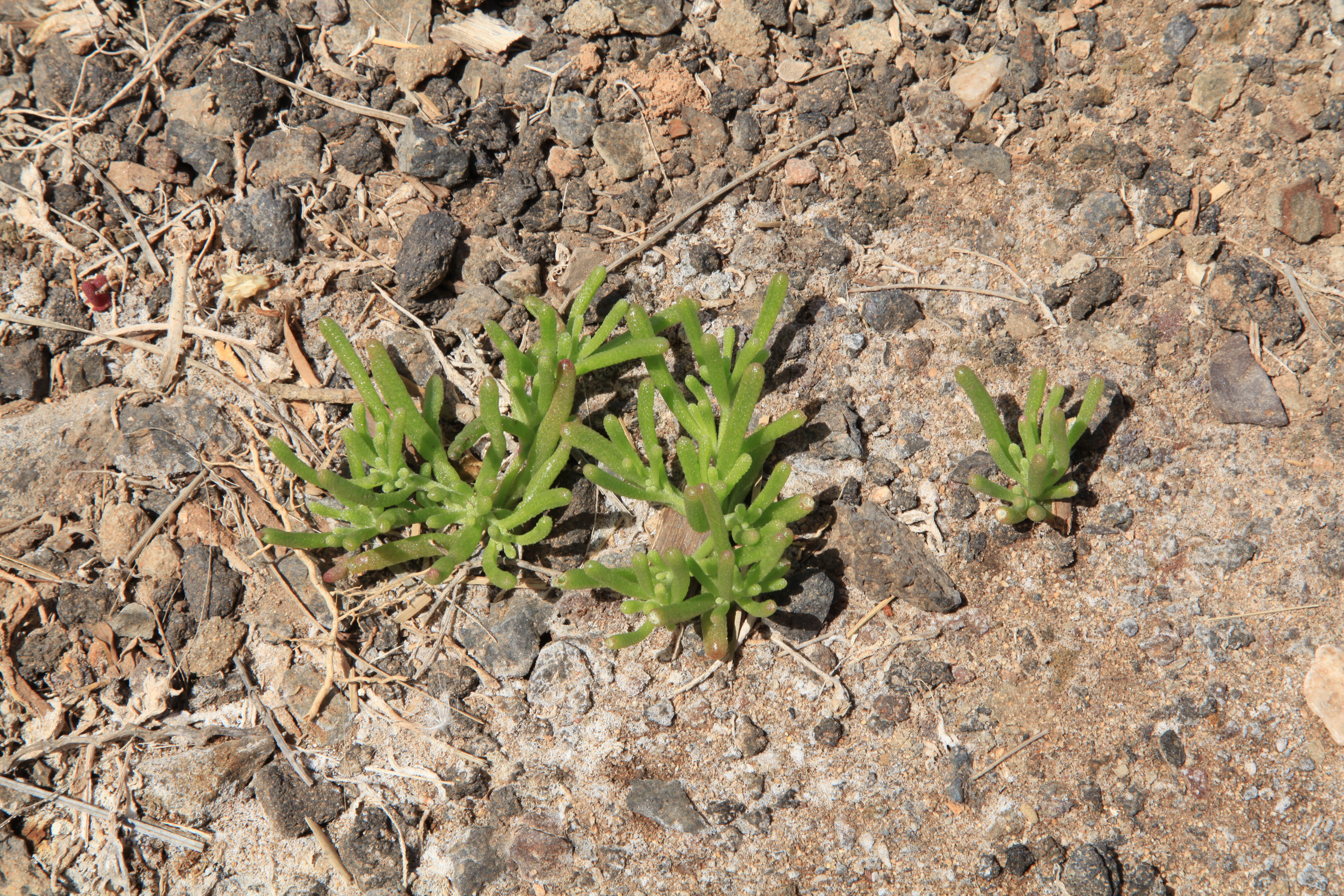 Mesembryanthemum nodiflorum growing in Las Hermosas in Pájara, Fuerteventura, Canary Islands